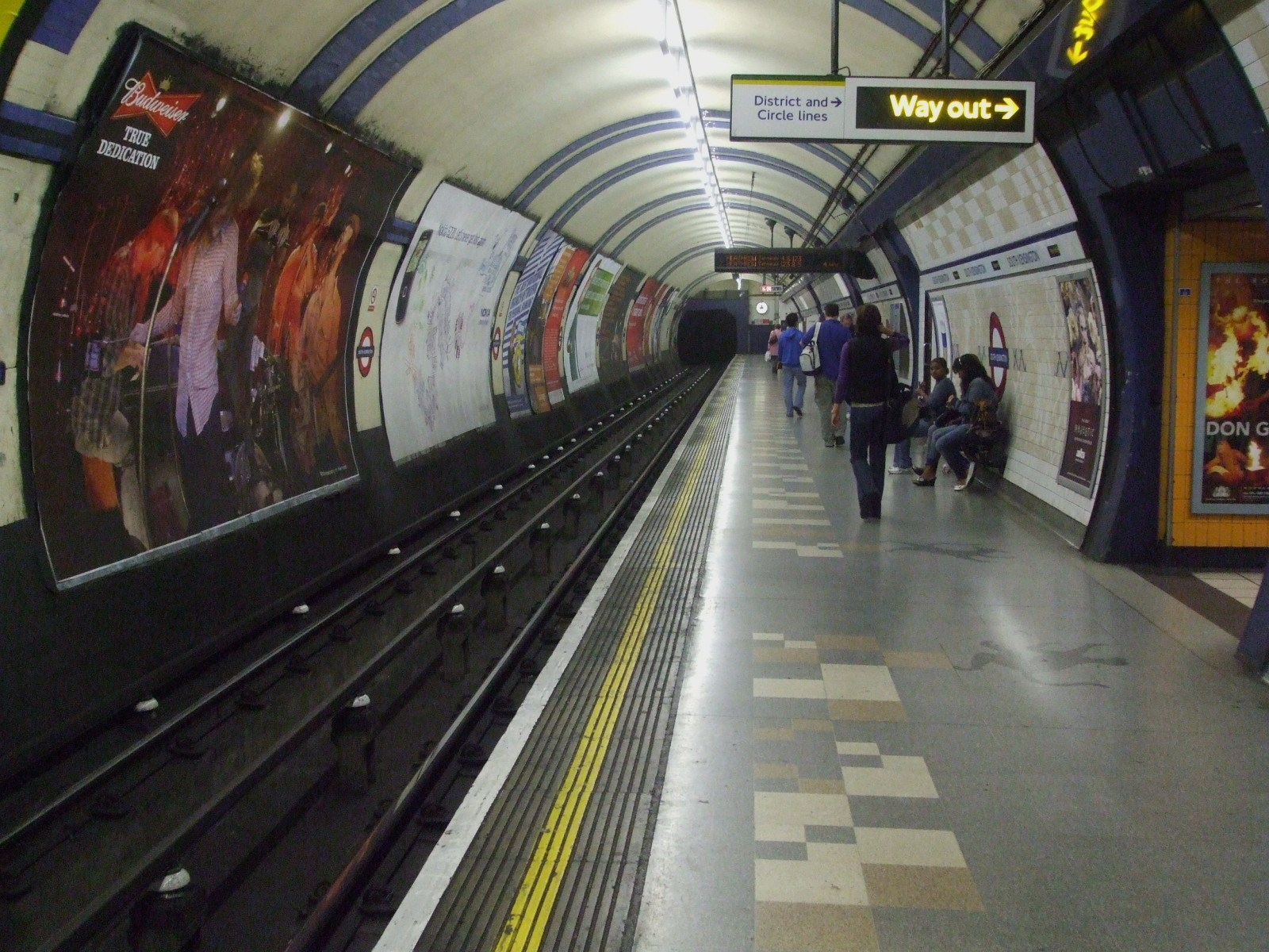 South Kensington tube station Piccadilly line westbound look east